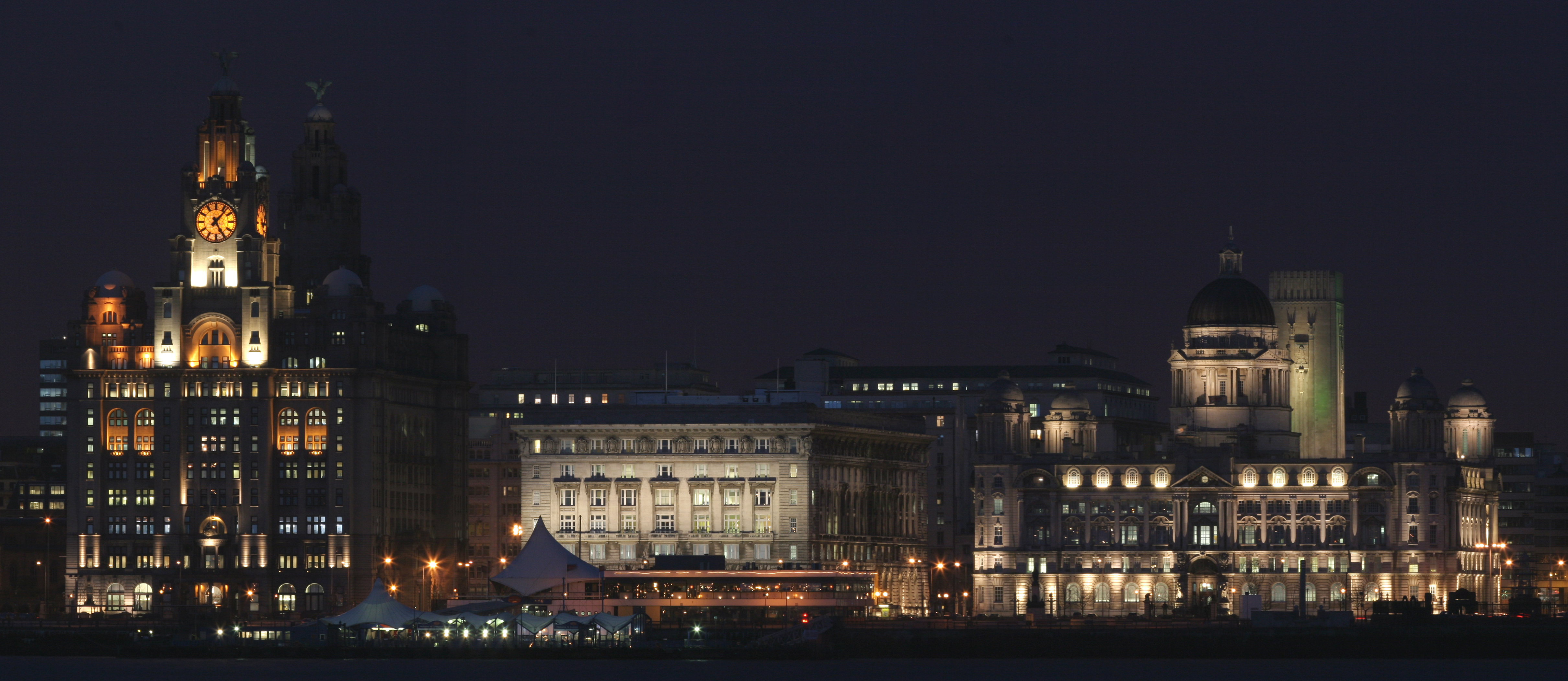 Liverpool Pier Head by night. Taken by Chris Howells, Januay 2006. Canon EOS 20D.